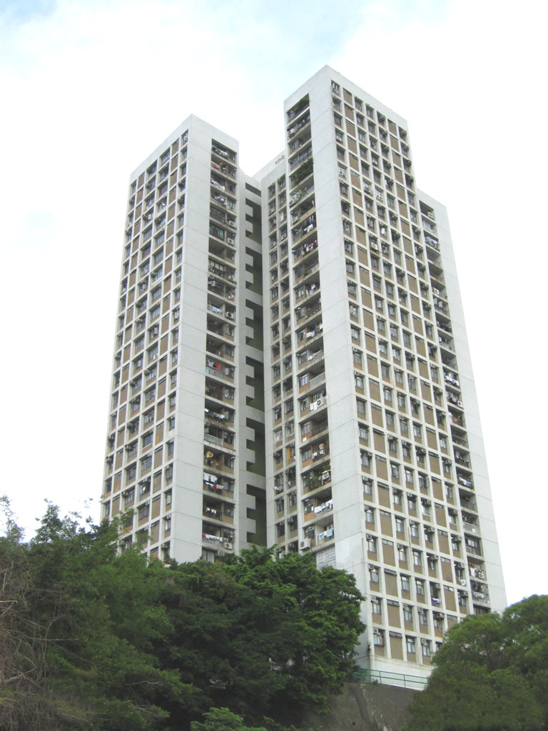 Tsui Yiu Court, Kwai Chung, New Territories, Hong Kong